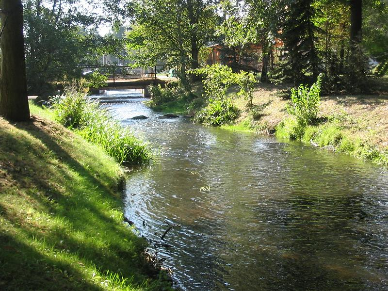 Stream Plane at former watermill in Locktow. The village Locktow is a part of the municipality Planetal in the district Potsdam Mittelmark, state Brandenburg, Germany. The village appertains to the natural preserve Naturpark Hoher Fläming.